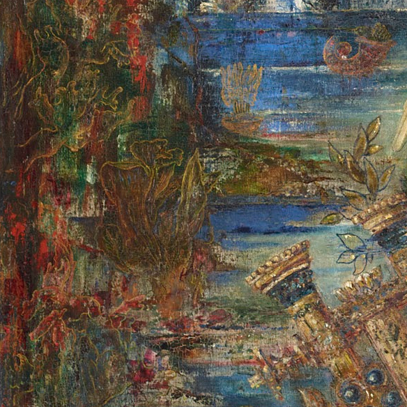 detail of the painting La Sirène et le Poète in Poitiers